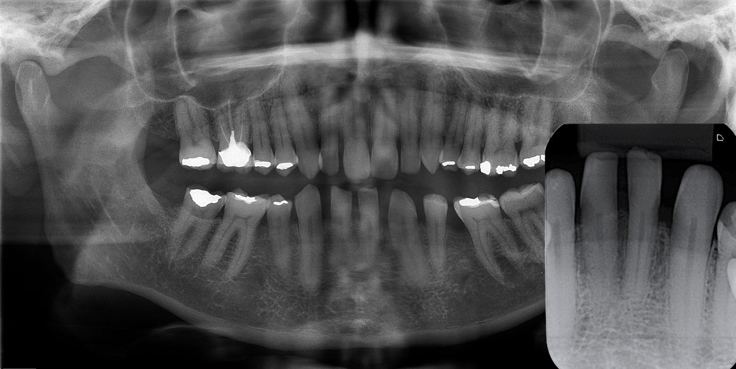 Panoramal radiograph of GCA showing agenesis of the lower lateral incisors and premolars. Inset periapical radiograph showing no evidence of bone involvement.